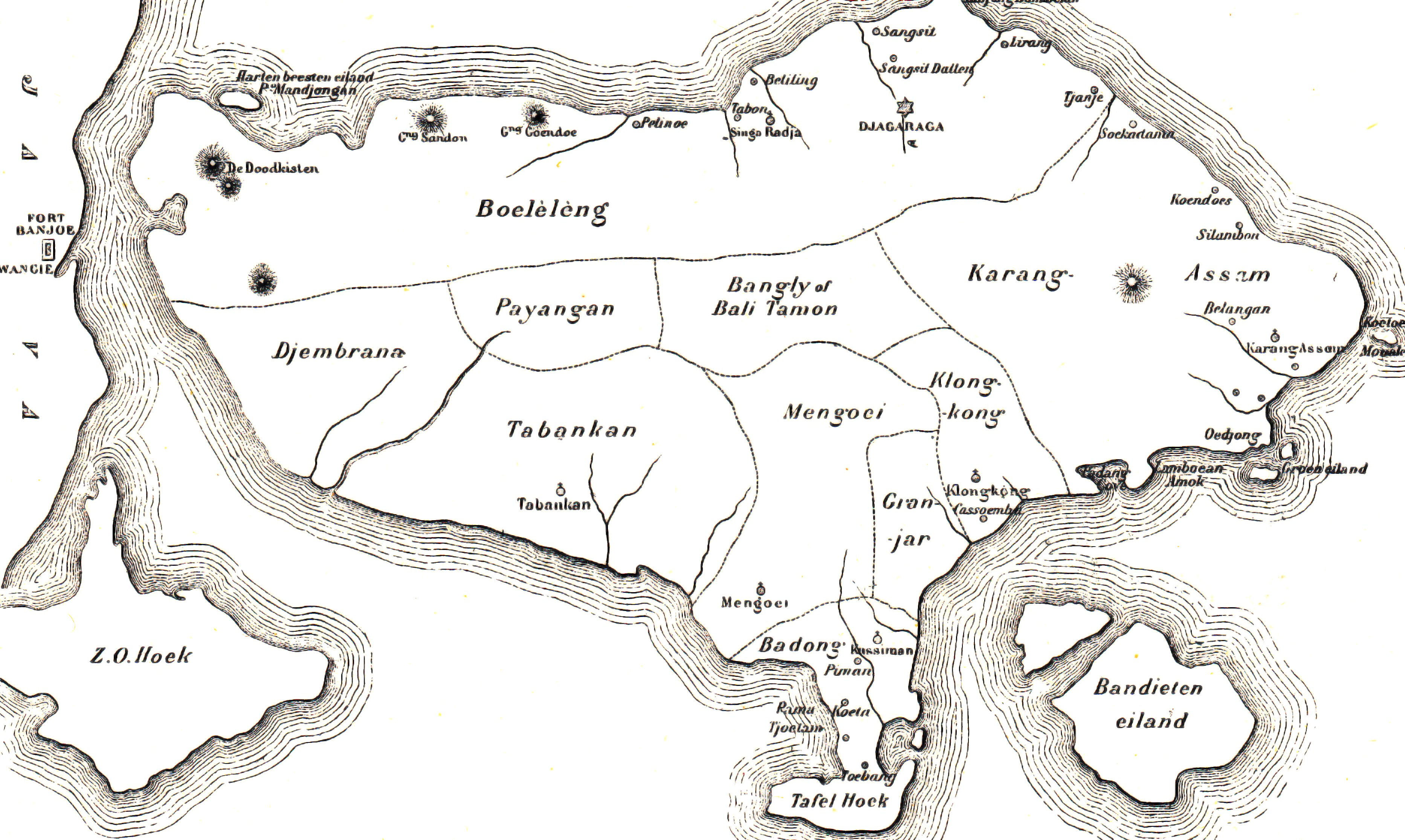 Kaart van Bali